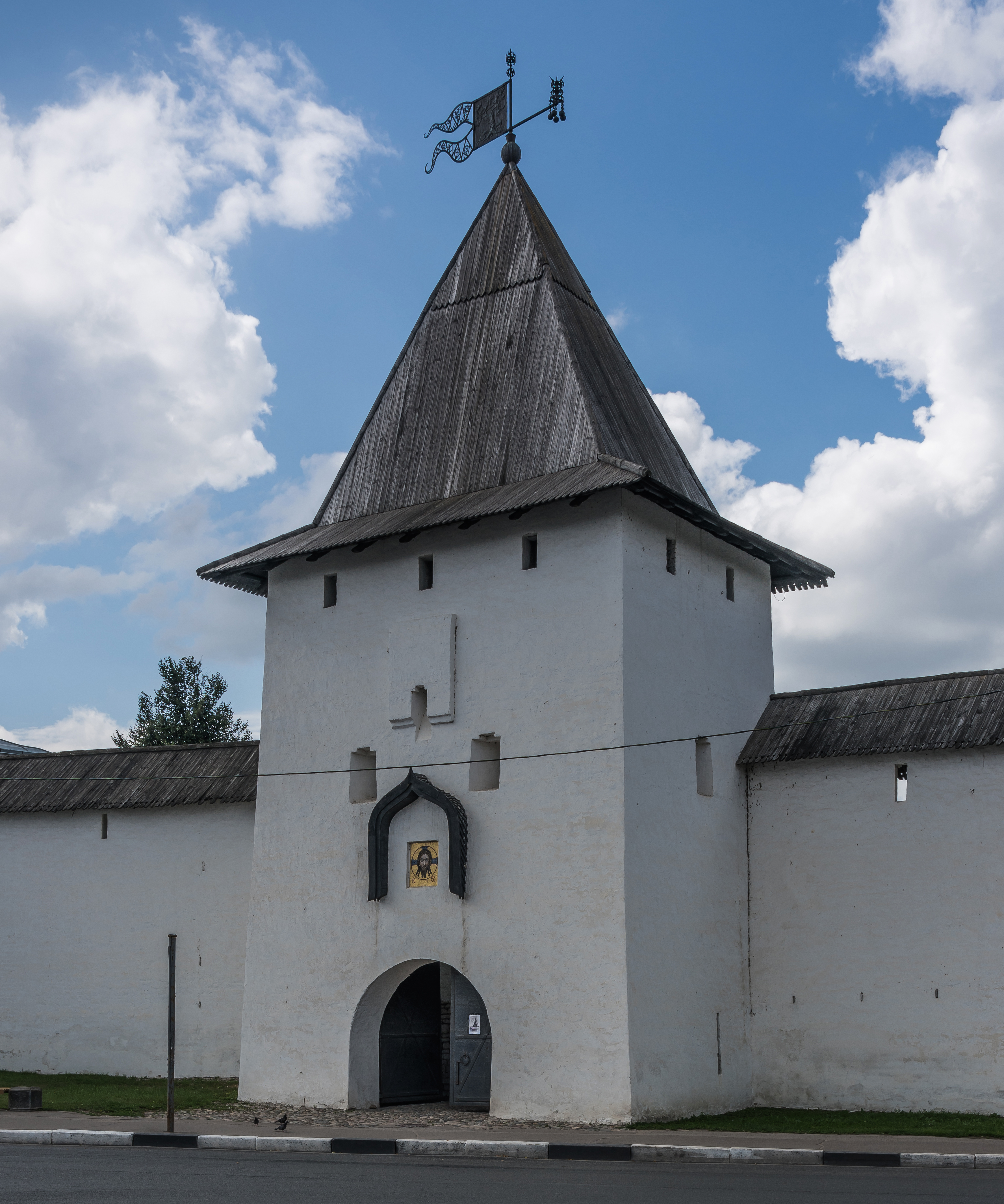 Rybnitskaya Tower of the Kremlin in Pskov, Russia